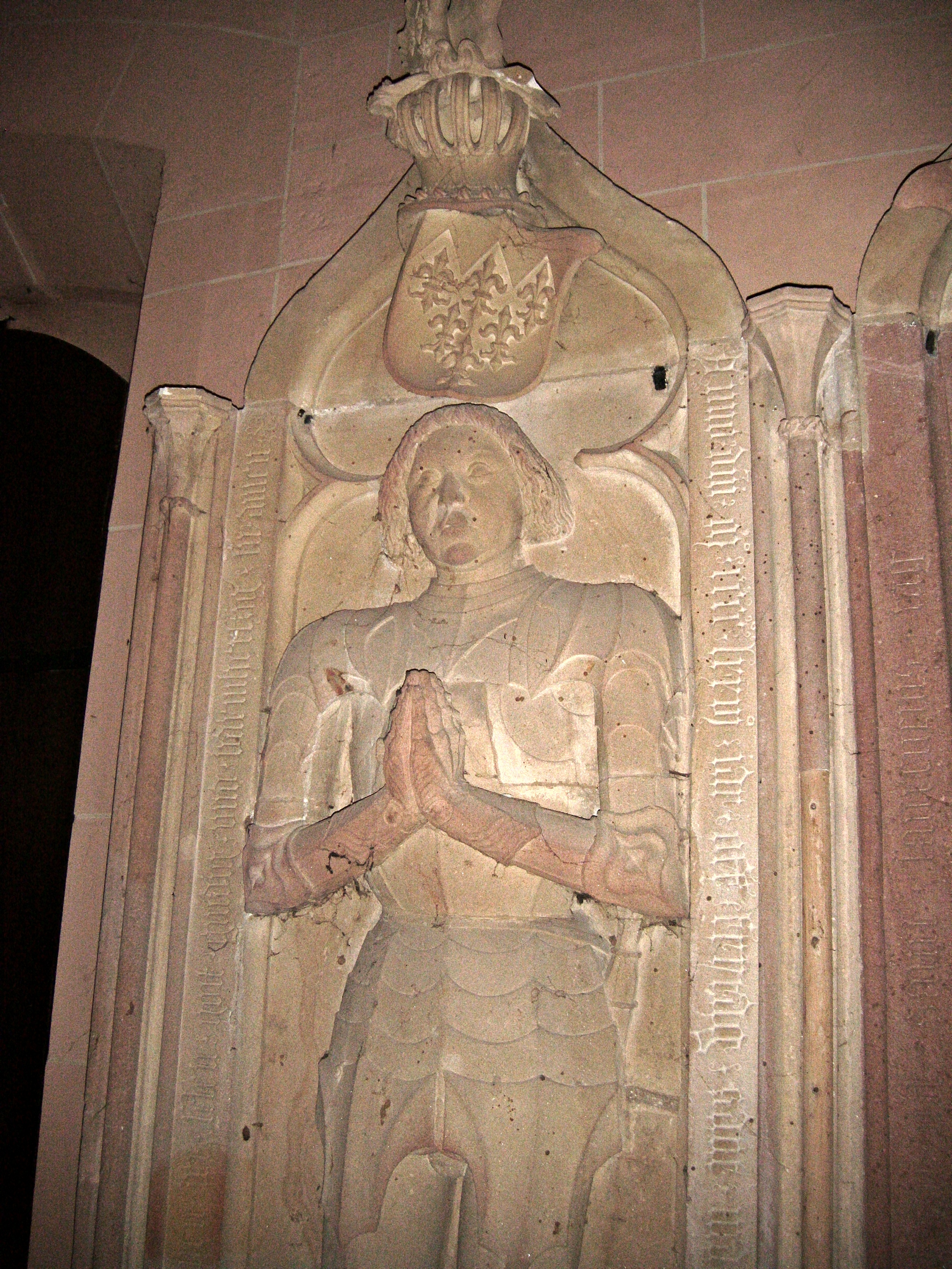 Wolf II. von Dalberg (1426-1476), Epitaph, Katharinenkirche Oppenheim